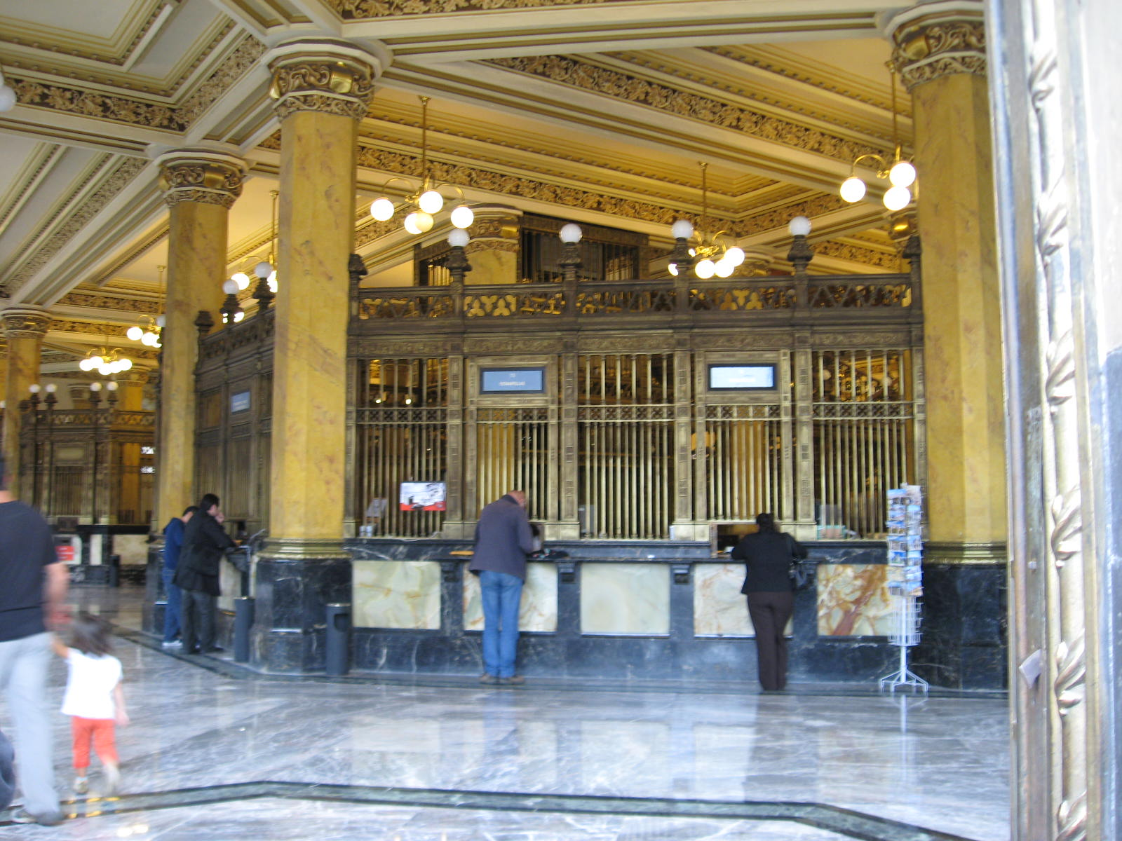 View of two the service windows upon entering the Palacio de Correos of Mexico City from the main entrance